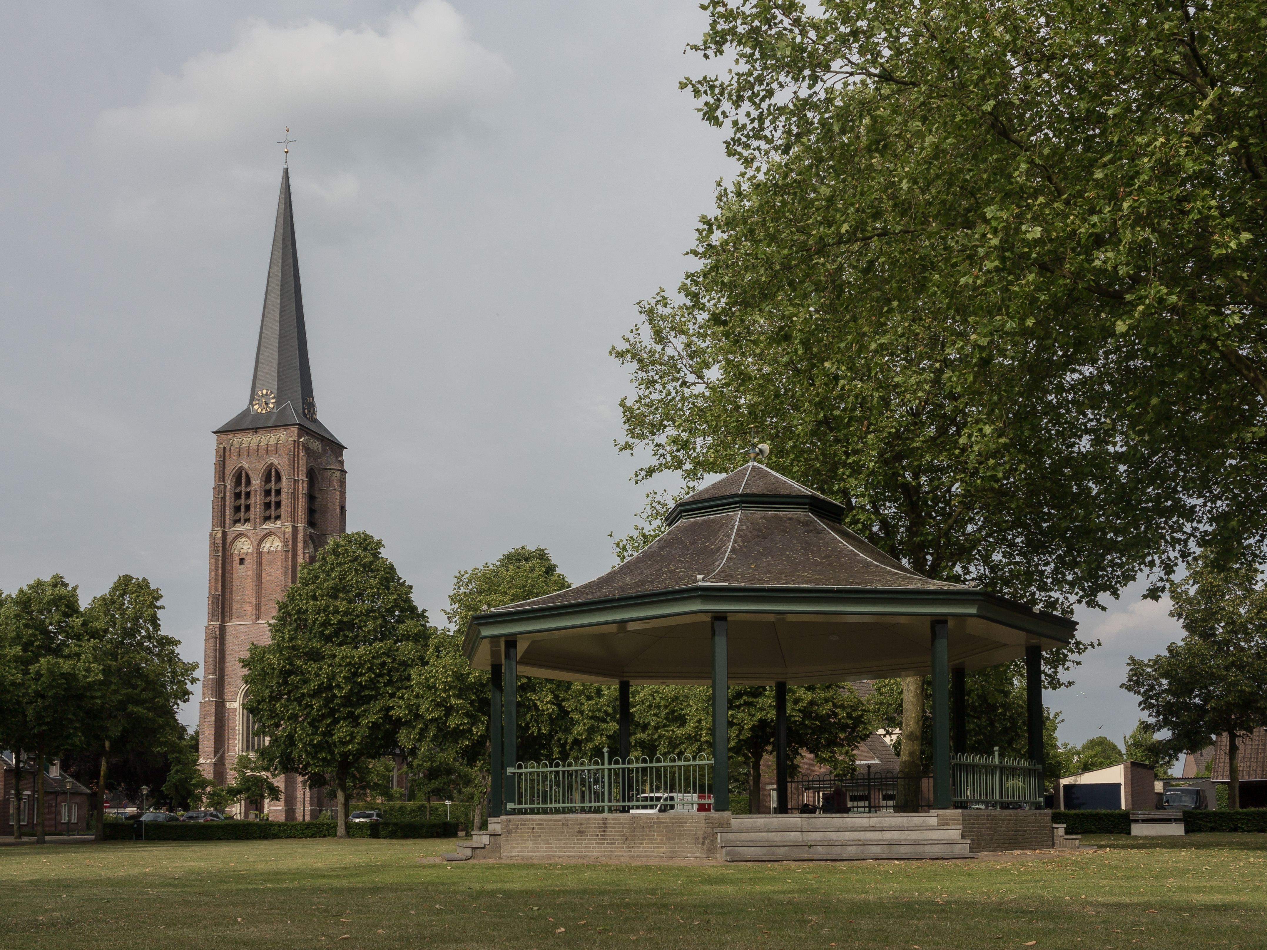 Diessen, church: de Sint Willibrorduskerk